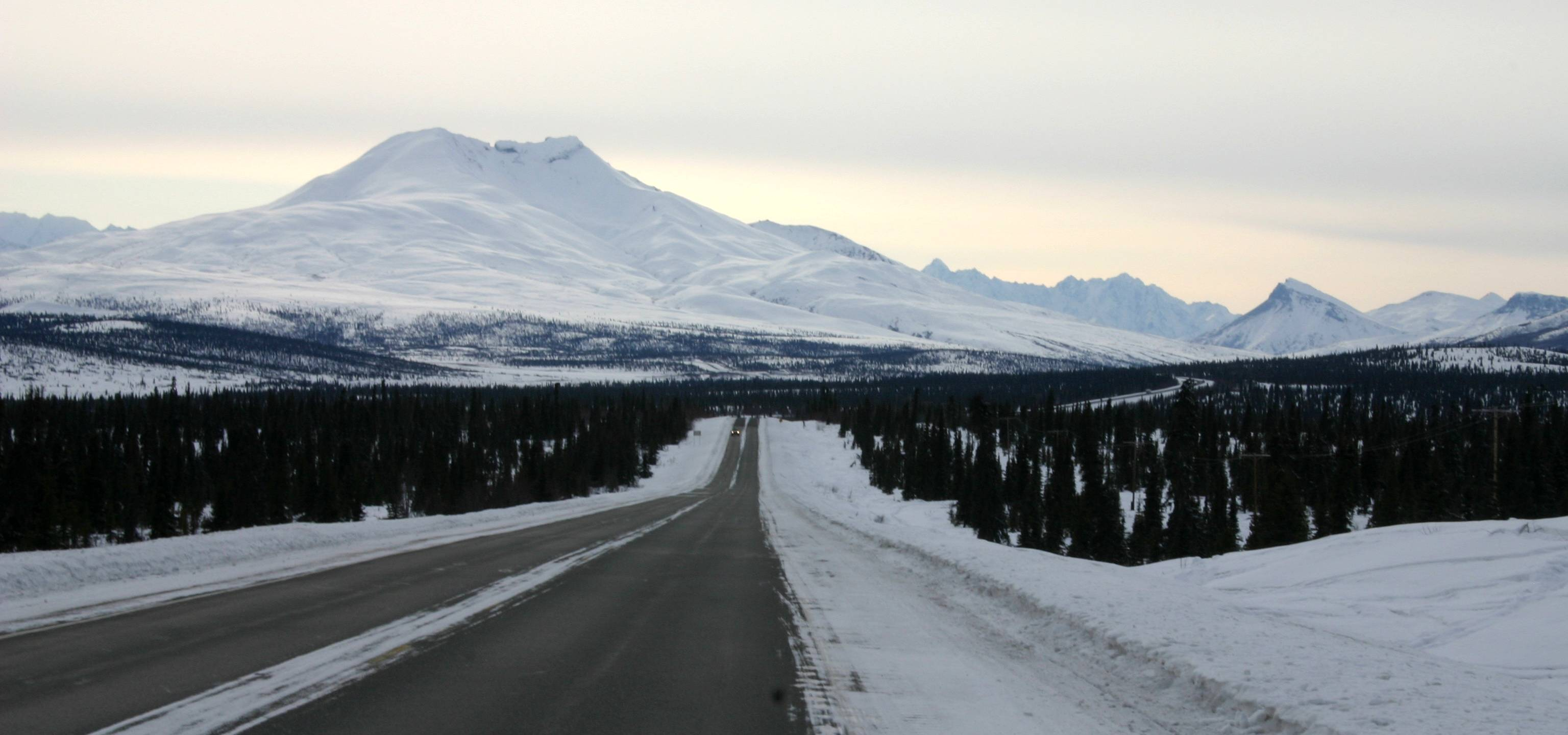 I took these photos on the way back from Fairbanks to Anchorage, Alaska in mid-March 2008. These photos are from the section south of Delta Junction to the Glenallen area.